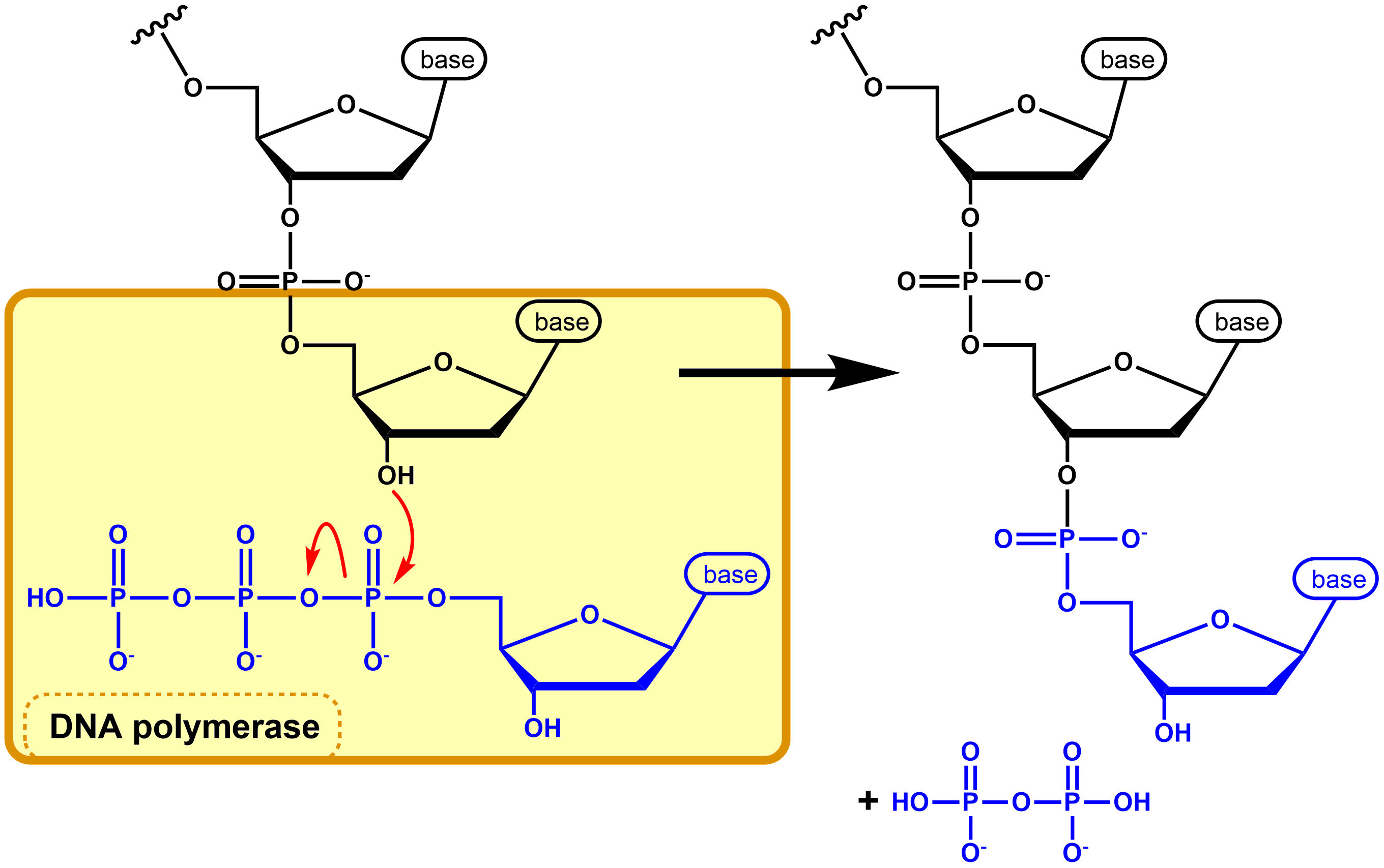 DNA elongation